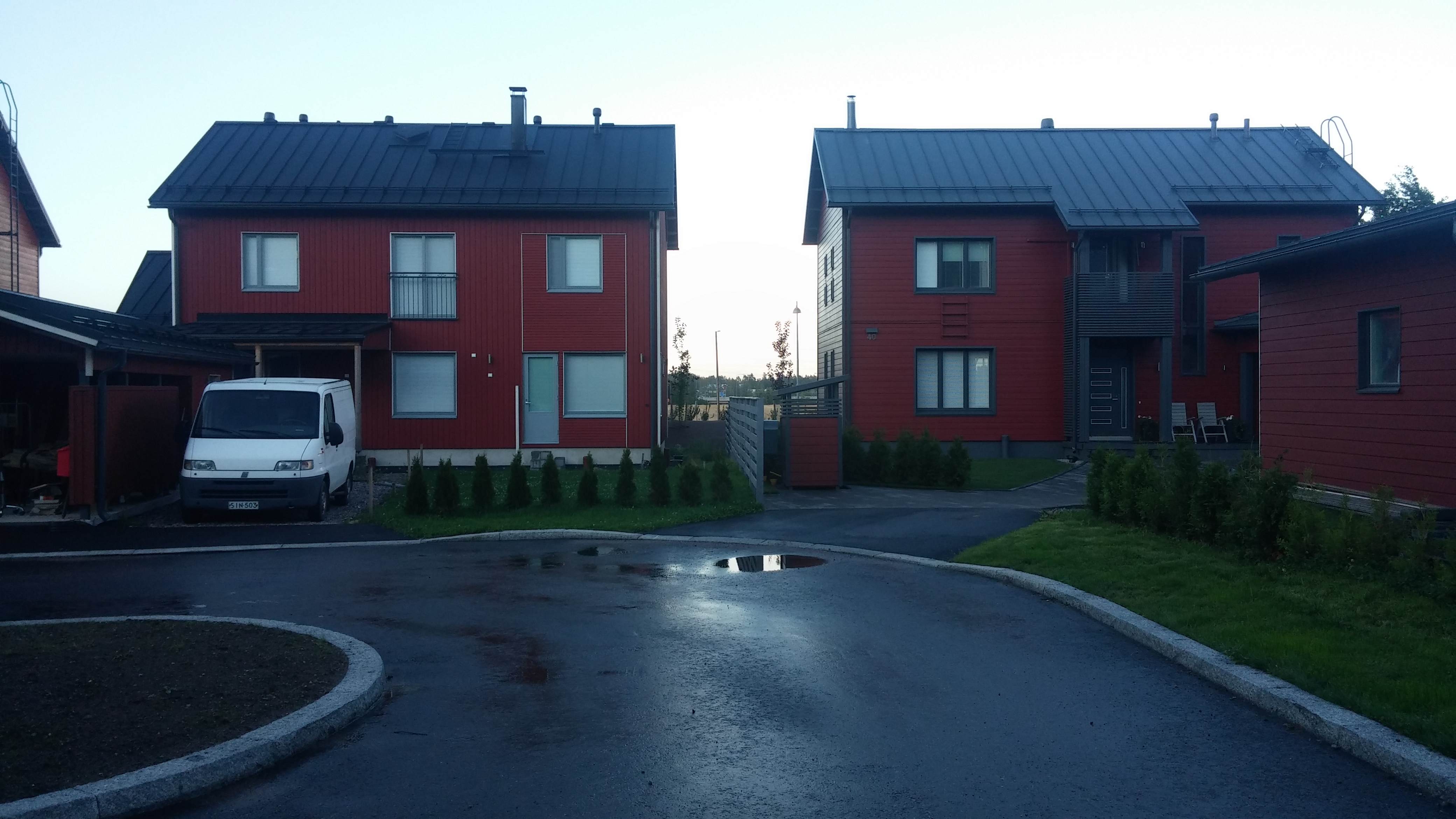 Helsinki-talo